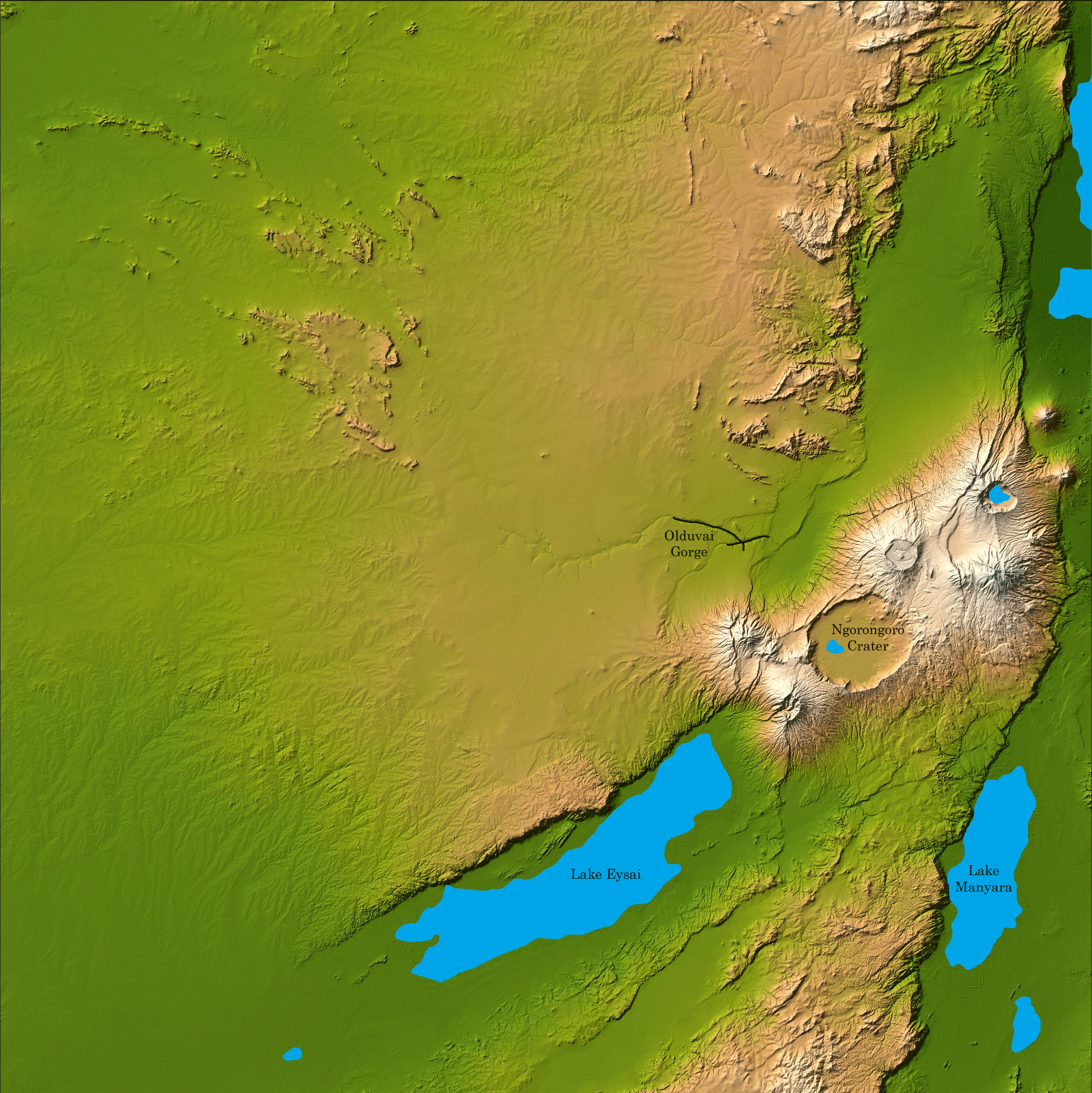 Topography map of the Olduvai Gorge reagion with labels.